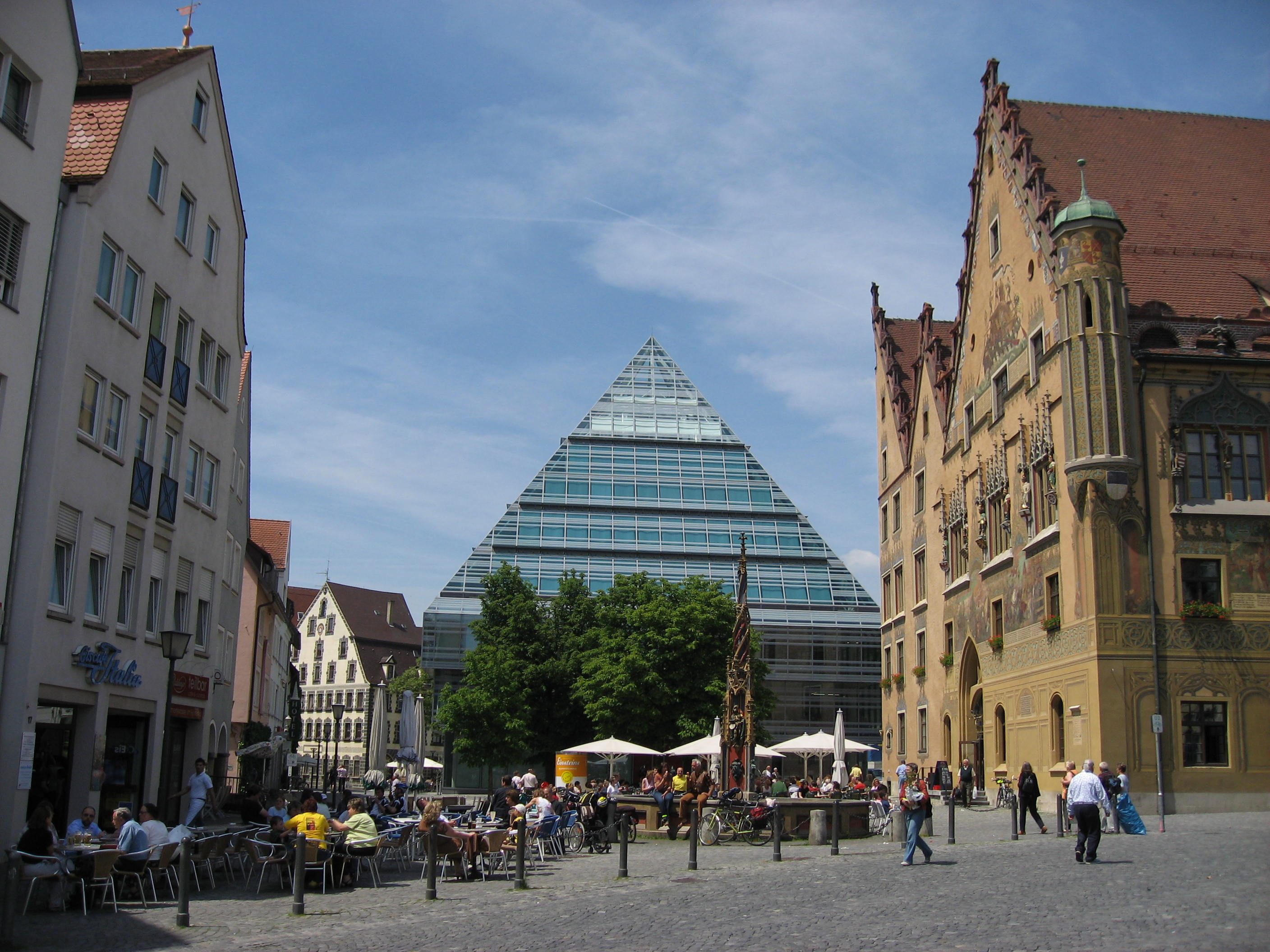 Ulm, Marktplatz mit Rathaus und Stadtbibliothek; Architect of the library: Gottfried Böhm